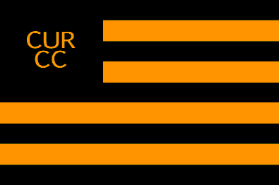 Central Uruguay Railway Cricket Club (C.U.R.C.C.)'s flag